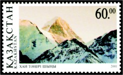 Stamp of Kazakhstan